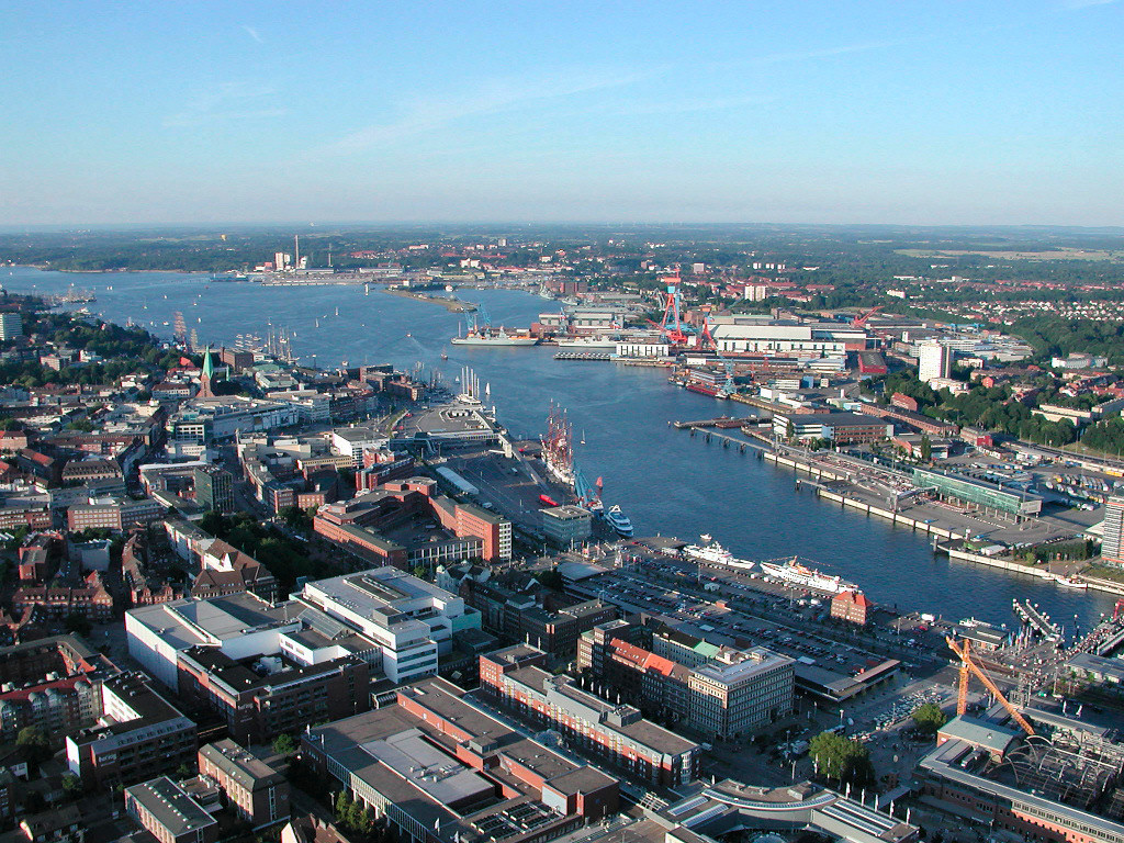 Aerial photo of the "Kieler Förde", Kiel, Germany